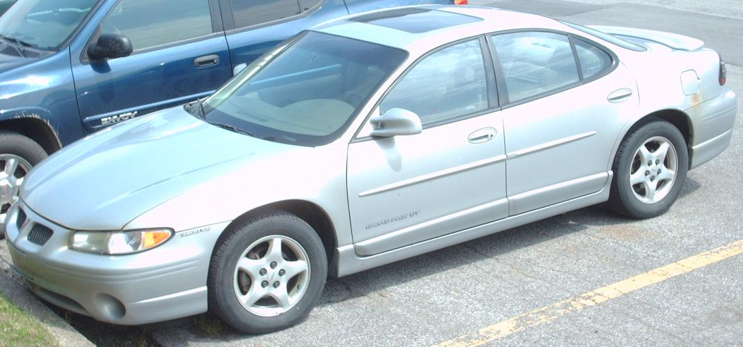 2001-2003 Pontiac Grand Prix photographed in Montreal, Quebec, Canada.